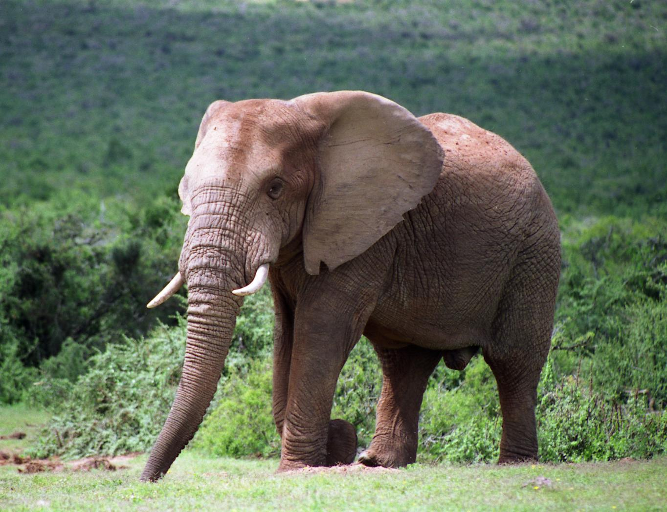 African elephant bull (Loxodonta africana)